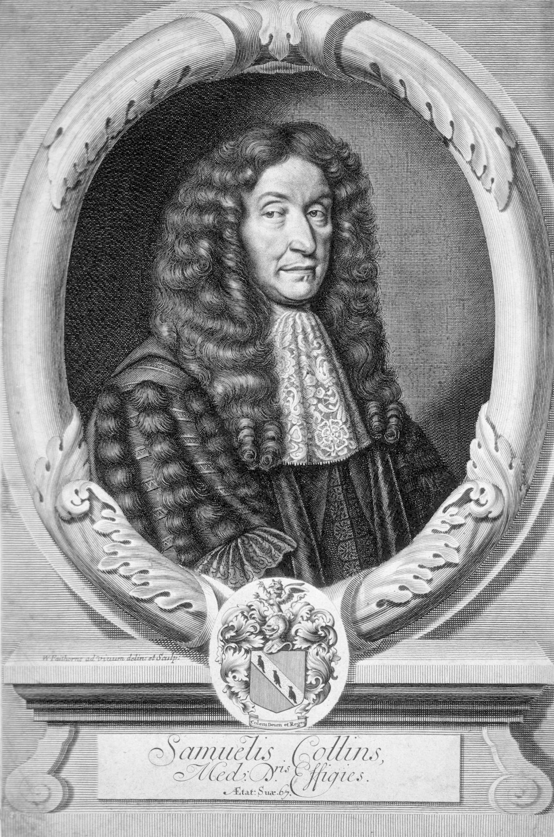 Samuel Collins (1618-1710)